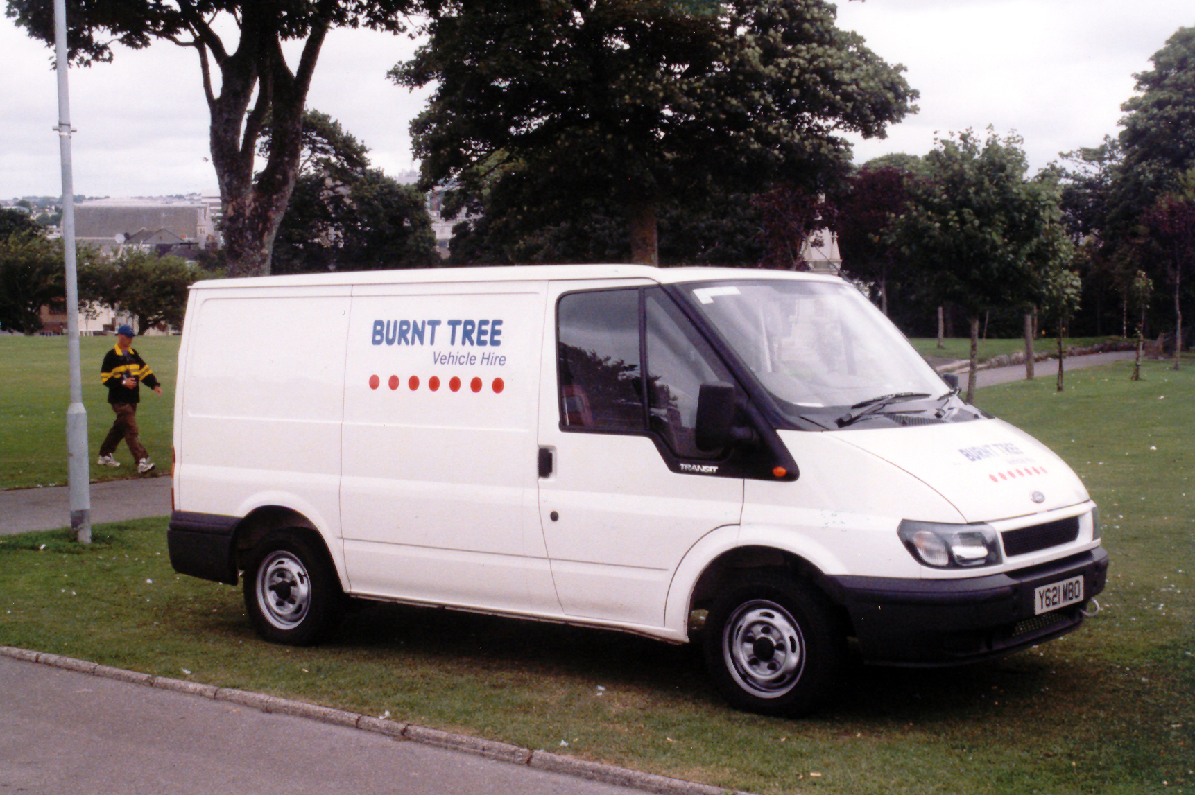 11th August 2001 Fire Rescue Competition hosted by Devon Fire Brigade on Plymouth Hoe